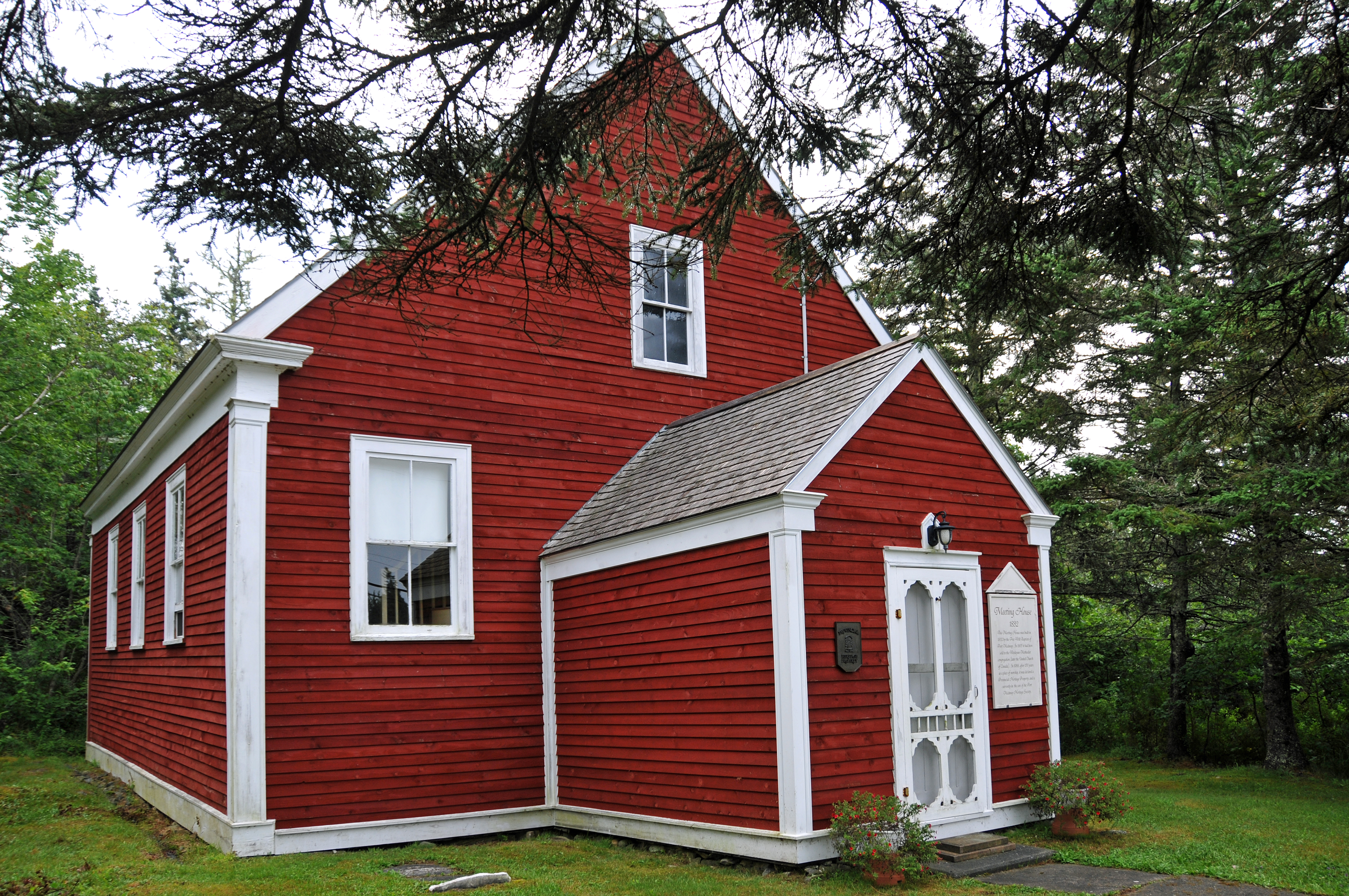 This meeting house was built in 1832 by the Free Will Baptists of Port Medway. In 1865 it had been sold to the Wesleyan Methodist congregation (later the United Church of Canada). In 1988, after 156 years as a place of worship, it was declared a Provincial Heritage Property, and is currently in the care of the Port Medway Heritage Society.